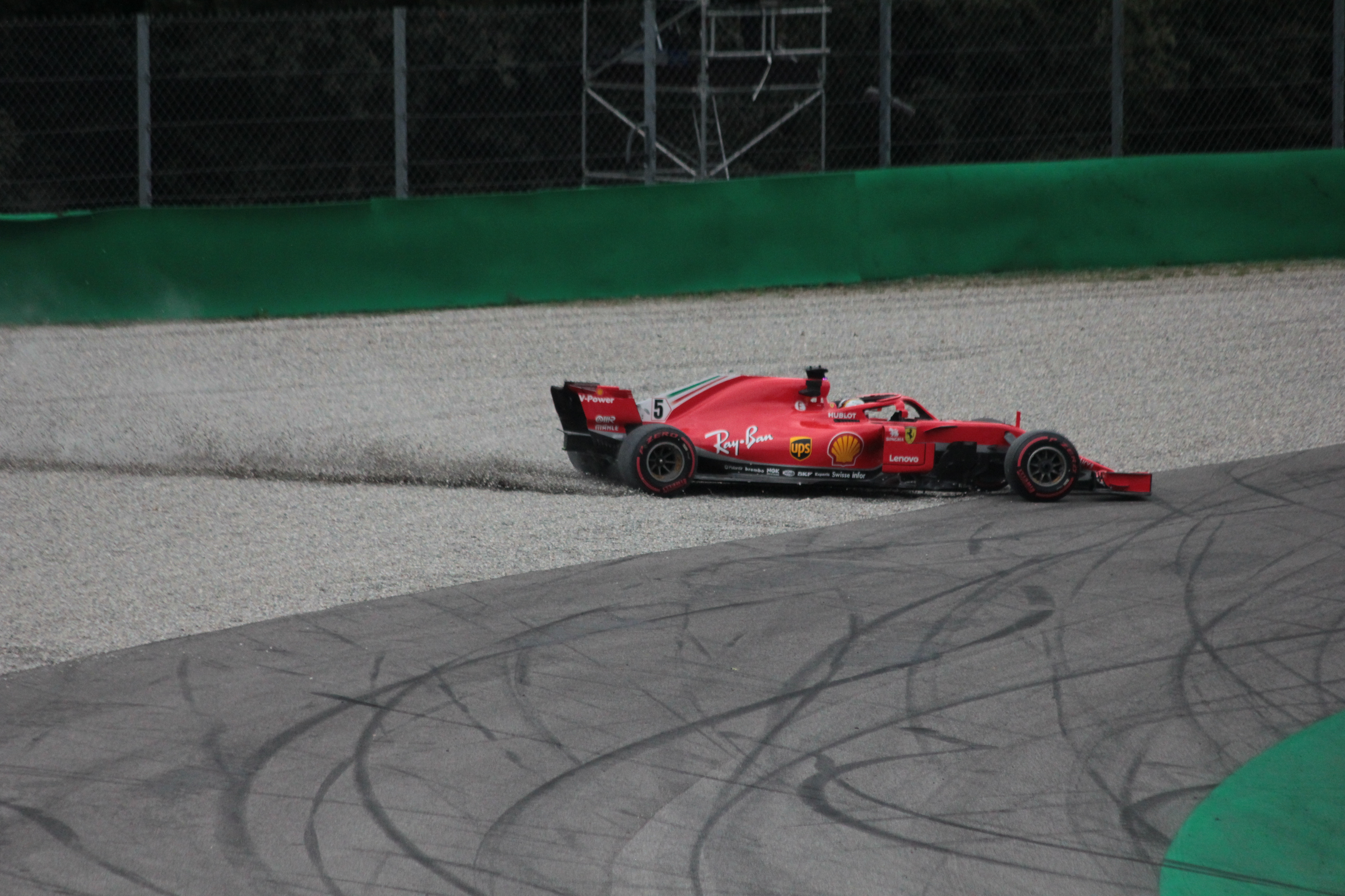 Sebastian Vettel spins off track during the second free practice session of the 2018 Italian GP.